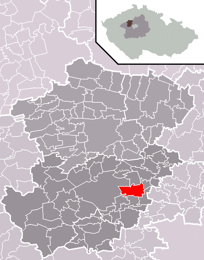 Location of Buštěhrad town within Kladno District and administrative area of Kladno as a Municipality with Extended Competence.